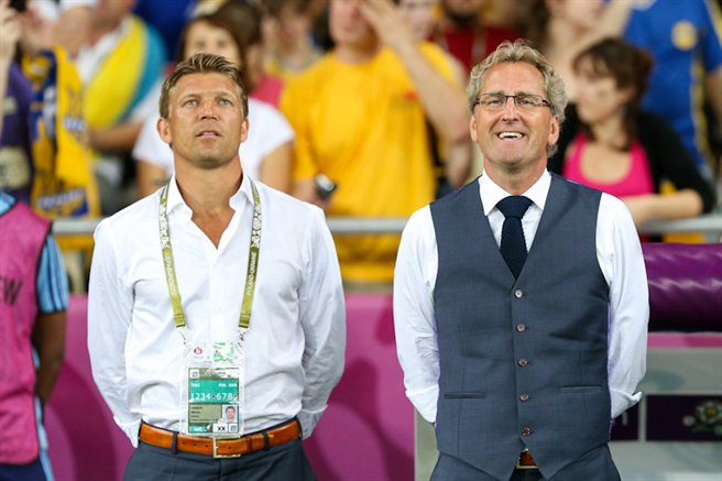 Marcus Allbäck, Sweden national team assistant coach and Erik Hamren head coach.